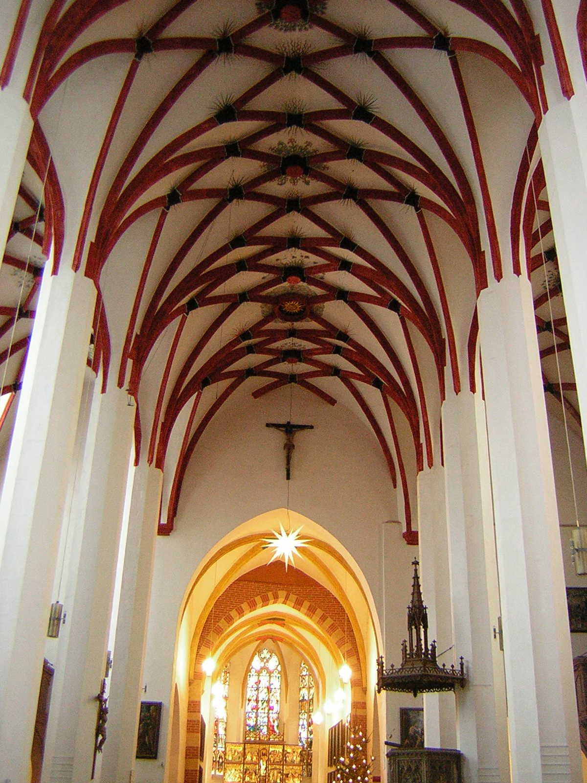 This image has been taken by Wikipedia-ce in late december of 2005 and is public domain. It shows the interior of the church St. Thomas in Leipzig, Germany.